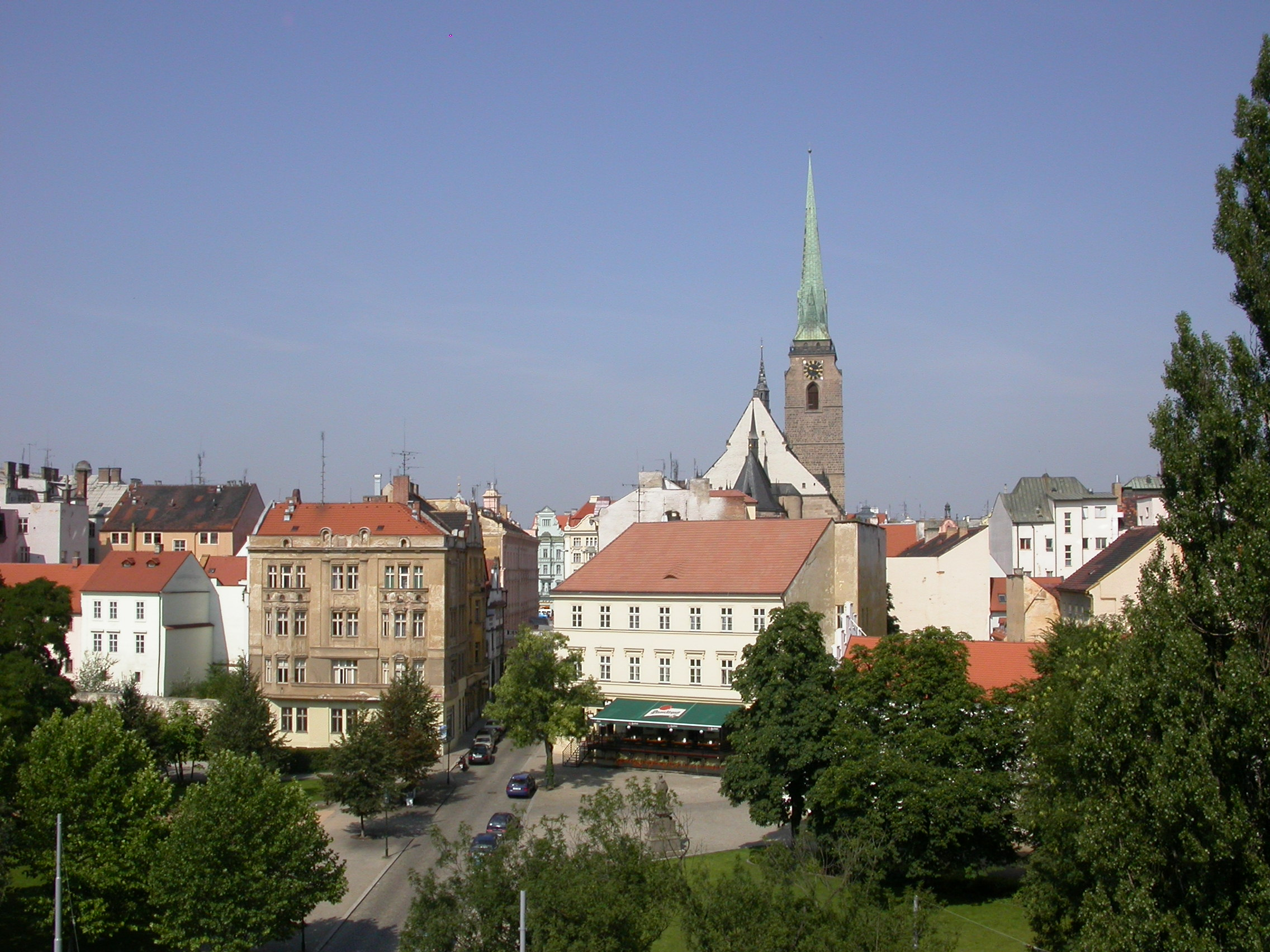 City of Plzeň with Cathedral of St. Bartholomew from the East, Czech Republic